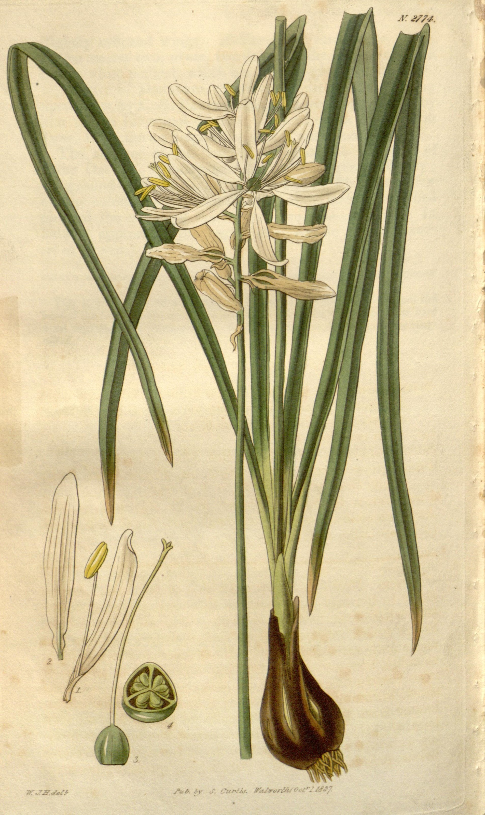 Curtis's botanical magazine.